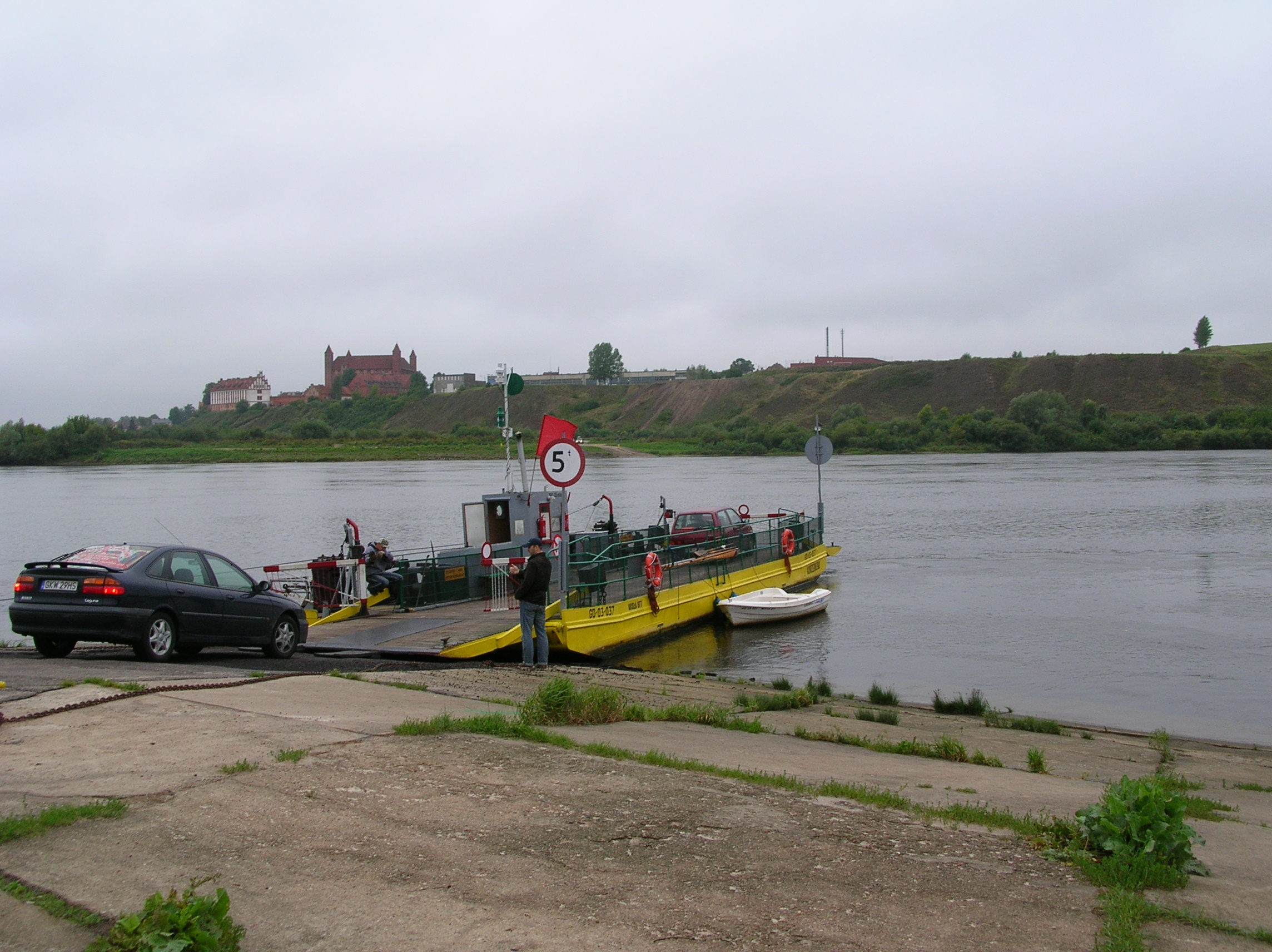 Ferry at Janowo (Wisła River)